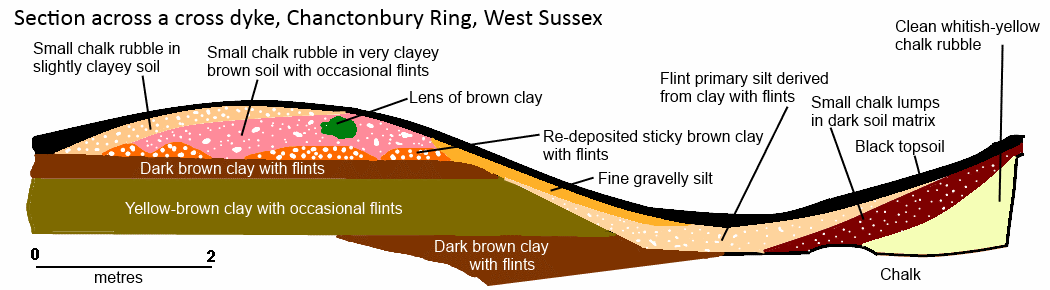 Section through a cross dyke at Chanctonbury Ring, West Sussex, after Bedwin et al 1980 Excavations at Chanctonbury Ring, Wiston, West Sussex 1977, Britannia volume 11, p.184.